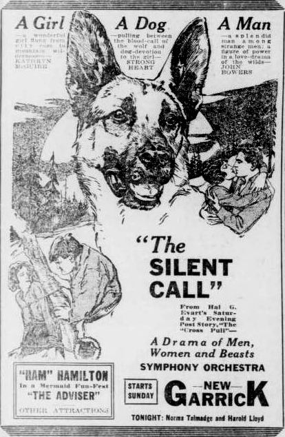 Newspaper advertisement for the American drama film The Silent Call (1921) with Strongheart the Dog, John Bowers, and Kathryn McGuire, on page 5 of the December 3, 1921 Duluth Herald.